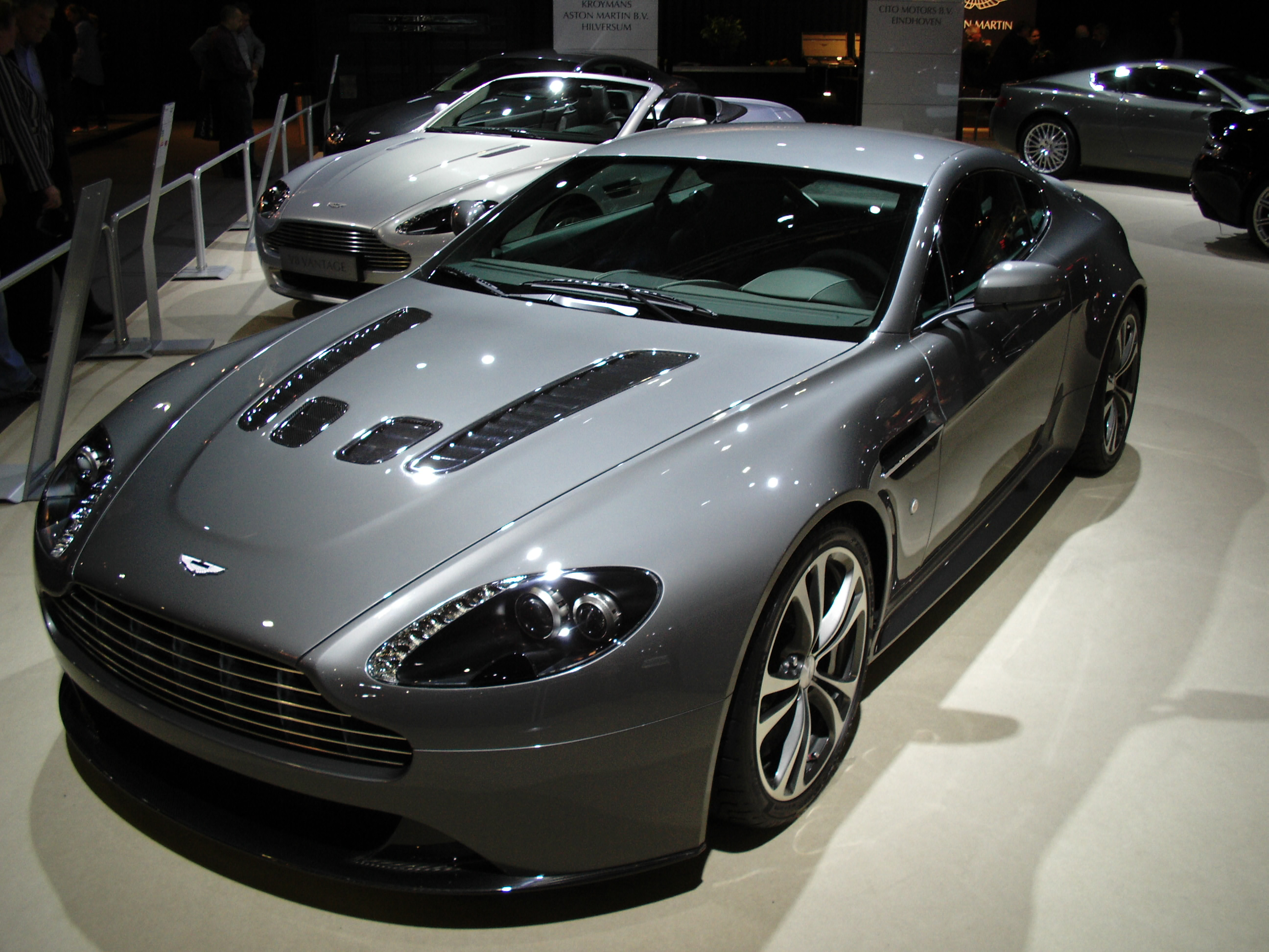 Aston Martin V12 Vantage @ AutoRAI 2009